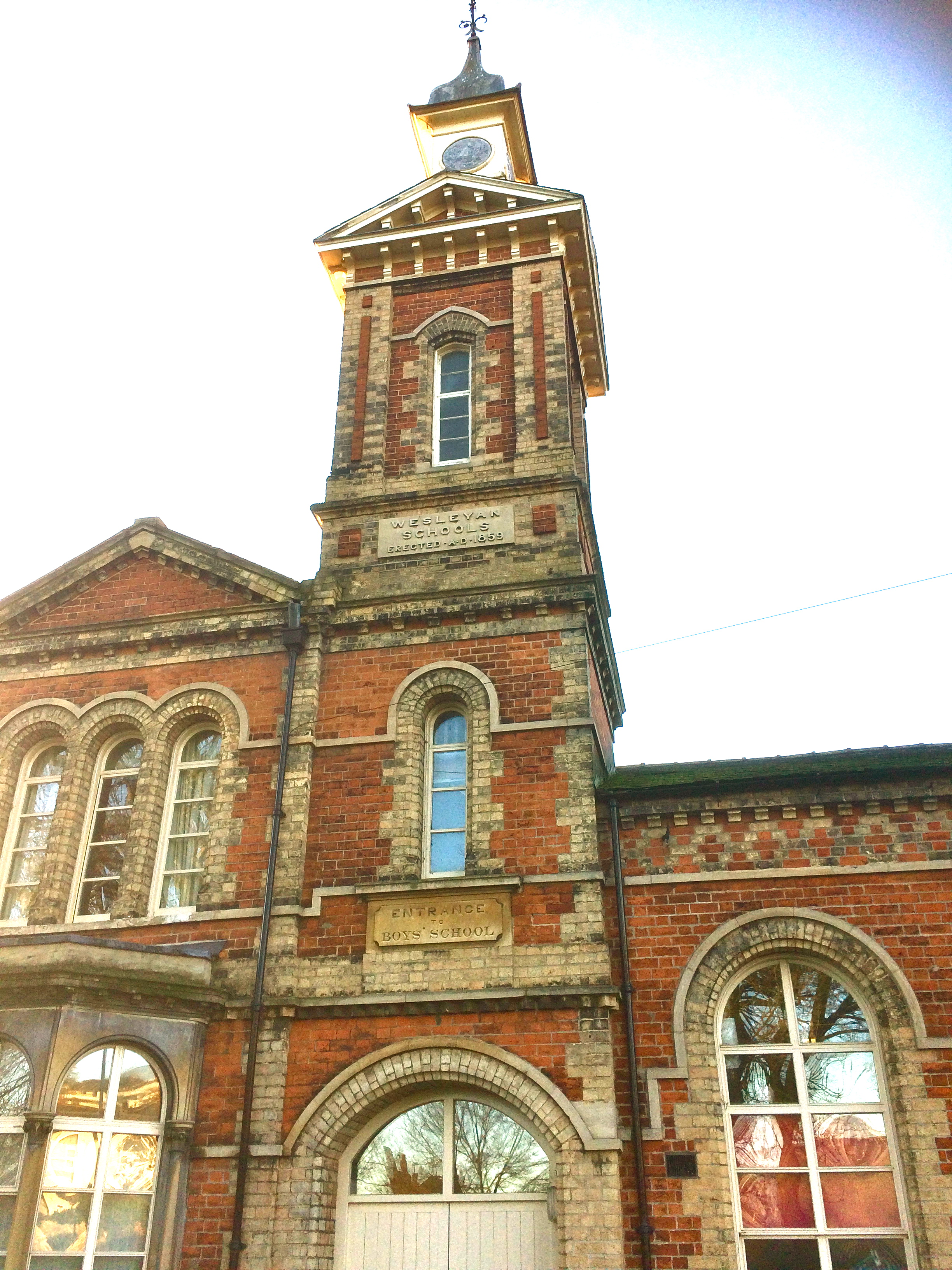 Wesleyan Day Schools, Rosemary Lane, Lincoln